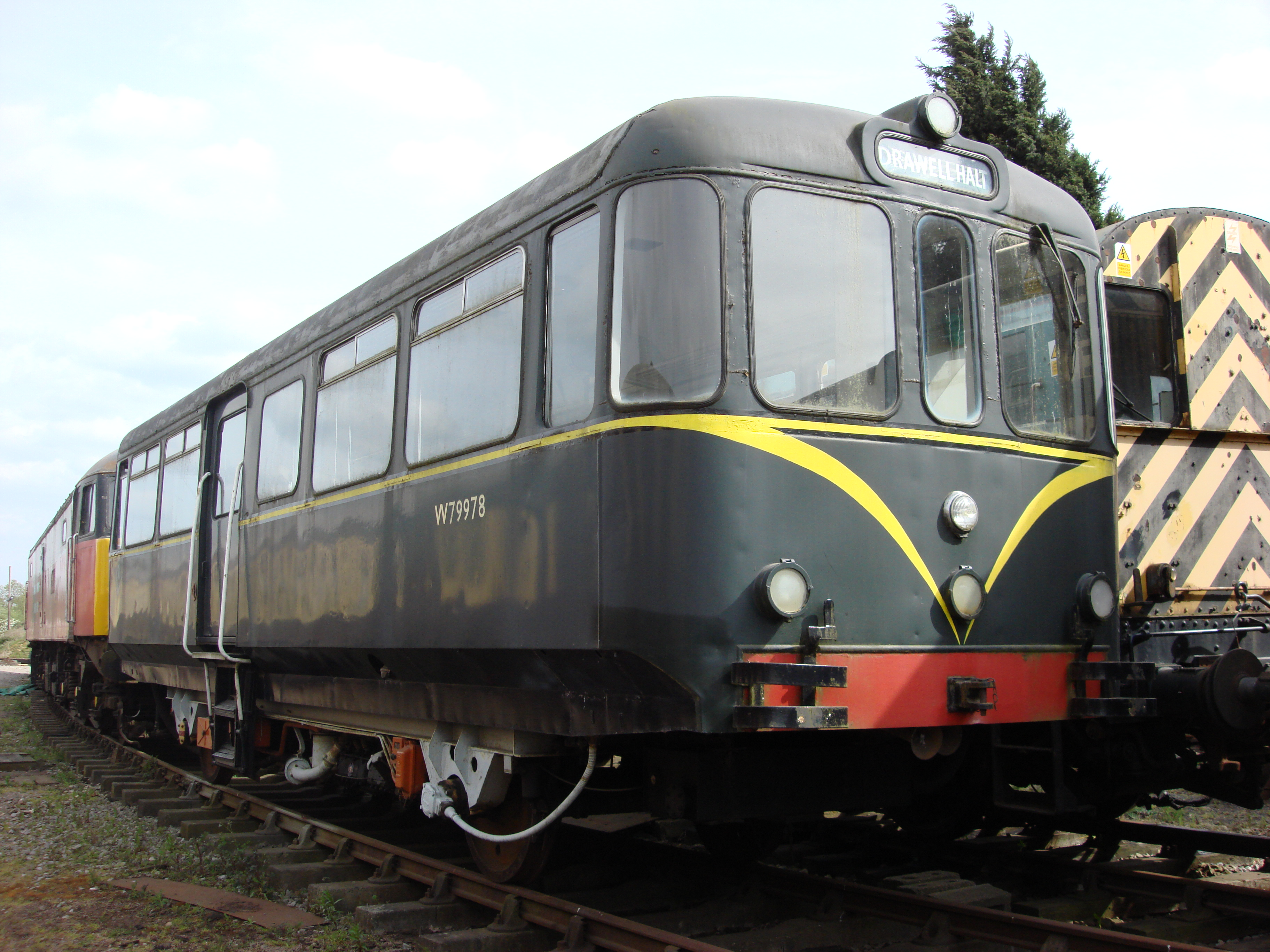 British Rail Railbus number W79978 at the Colne Valley Railway